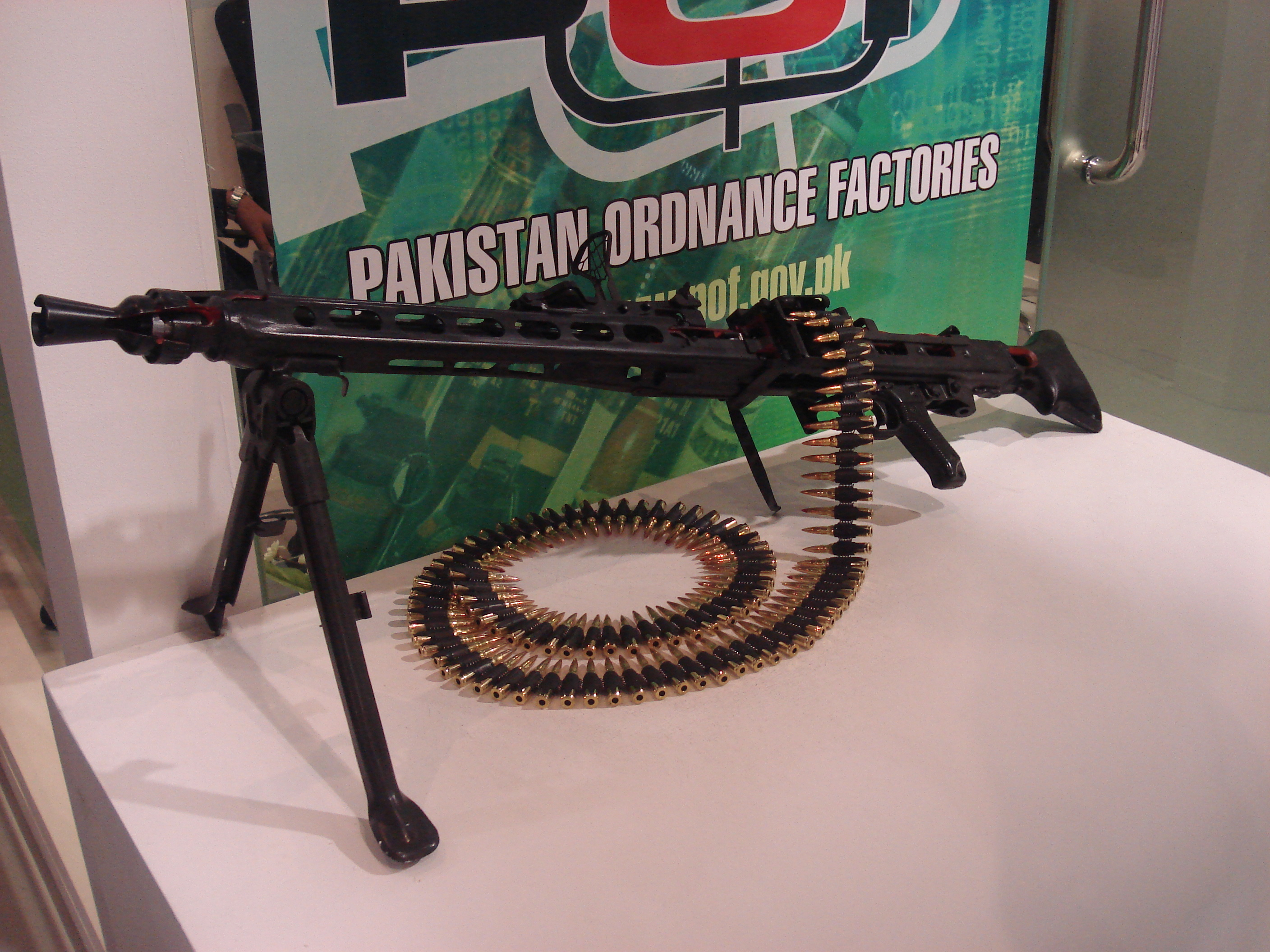 Pakistani version of MG3